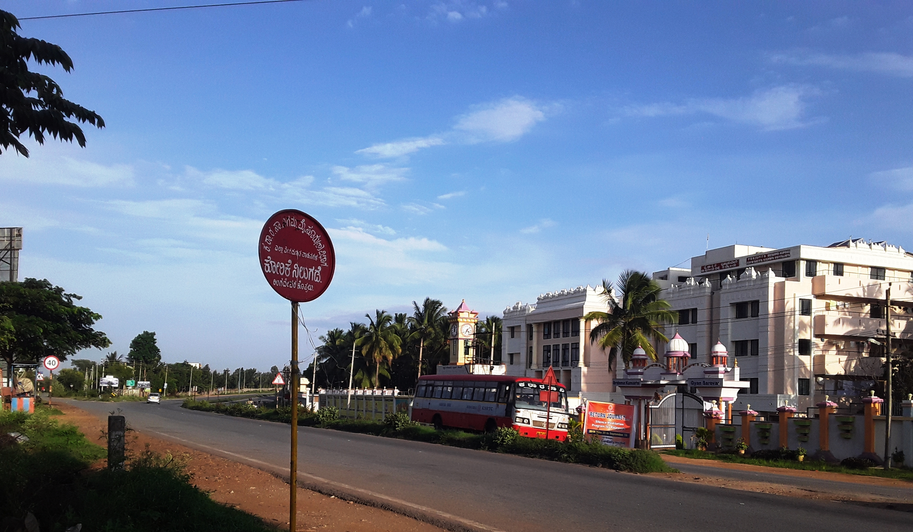 Karnataka province, India.